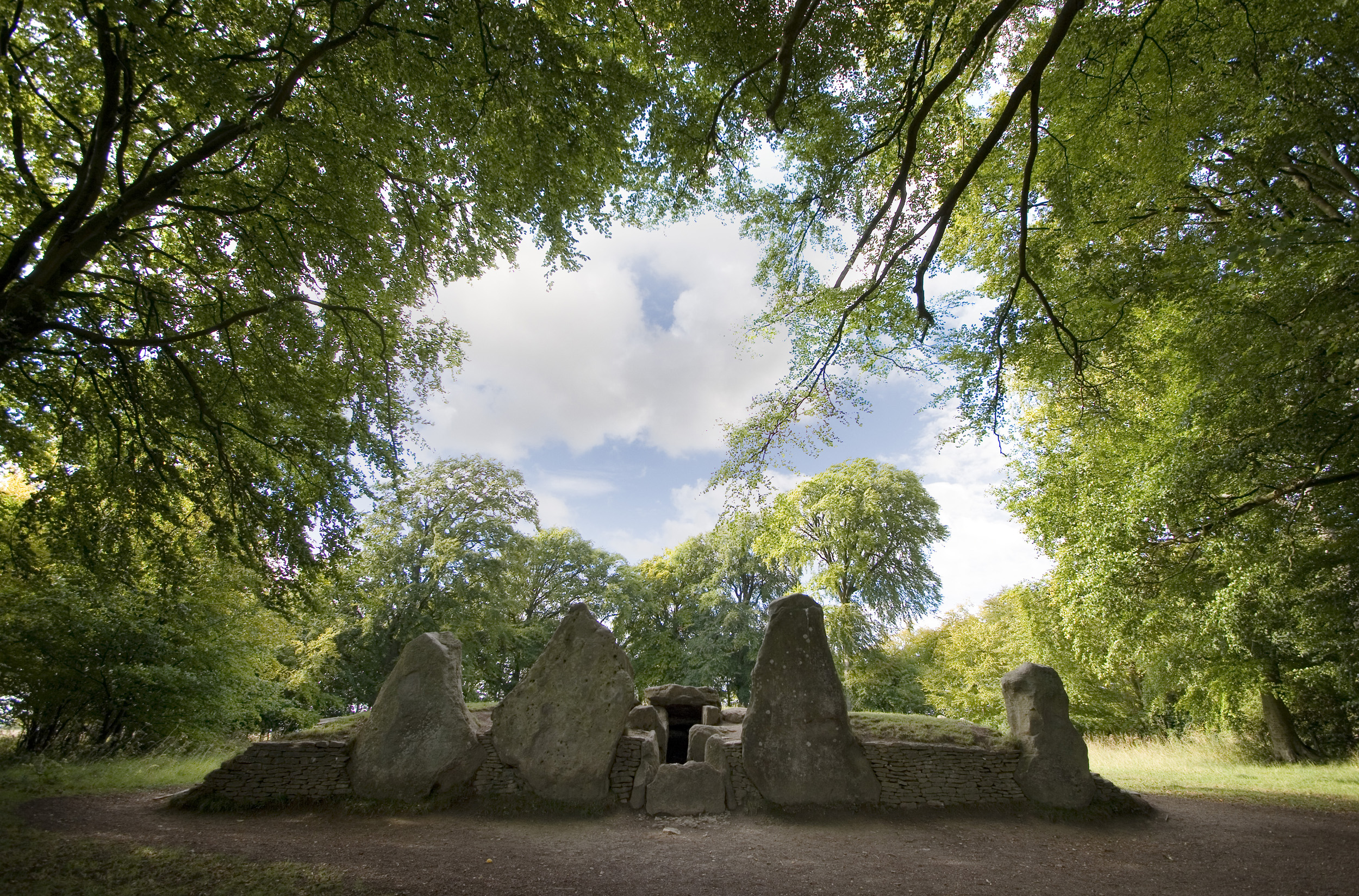 One of Britains best examples of a neolithic long barrow, located on the Ridgeway, close to the Uffington white horse in Oxfordshire.